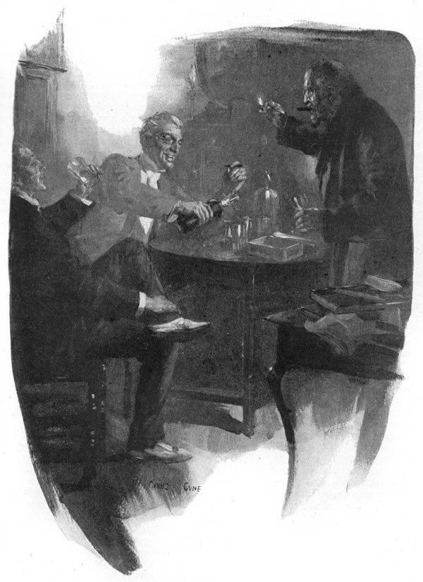 Pall Mall's illustration for E. W. Hornung's Raffles short story "The Field of Philippi" by Cyrus Cuneo. This story was first published in the US in Collier’s Weekly in the April 29, 1905 issue, and in the May 1905 issue of Pall Mall Magazine in the UK.